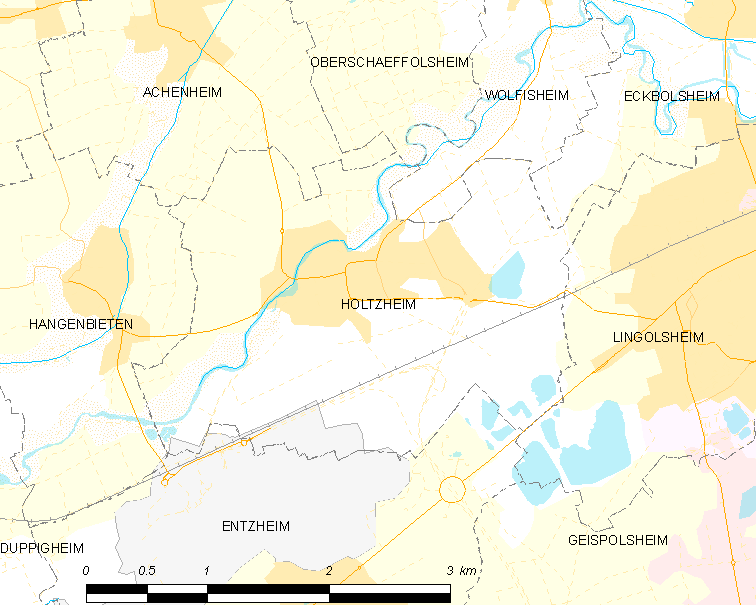 Map of French municipality